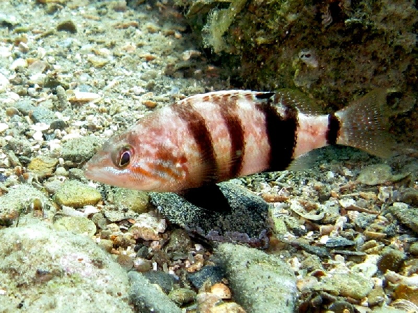 Serranus hepatus photographed in Trieste, Italy.